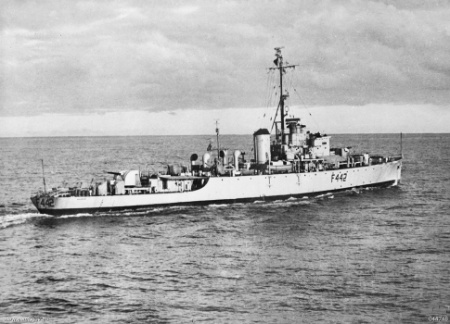 AWM caption : Korea: Seoul Area, Han River Estuary. Australian frigate HMAS MURCHISON served in Korean waters from May 1951 to January 1952 rendering distinguished service in the Han Estuary.